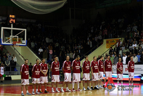 lokomotiv Kuban Krasnodar before the game